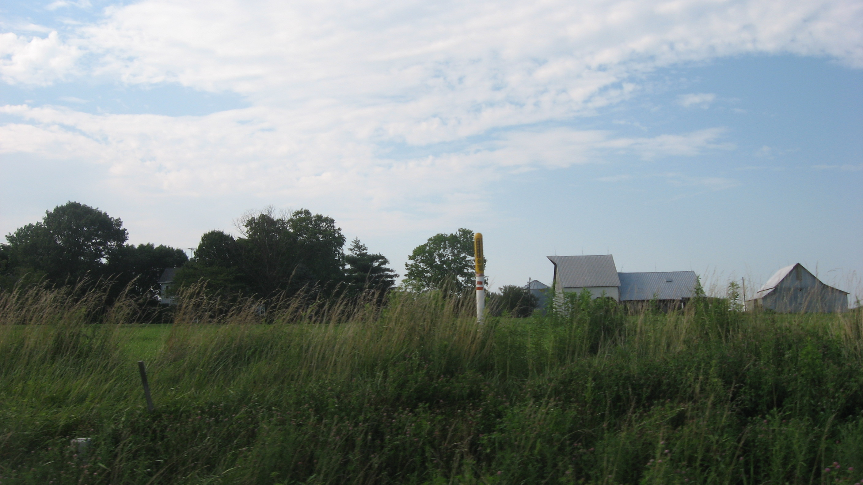 Barns at the McCall Family Farmstead, located at 4914 E800N southeast of Plainville in Bogard Township, Daviess County, Indiana, United States. Built in 1871 and 1900, the barns, along with the rest of the farmstead, have been designated a historic district and listed on the National Register of Historic Places.